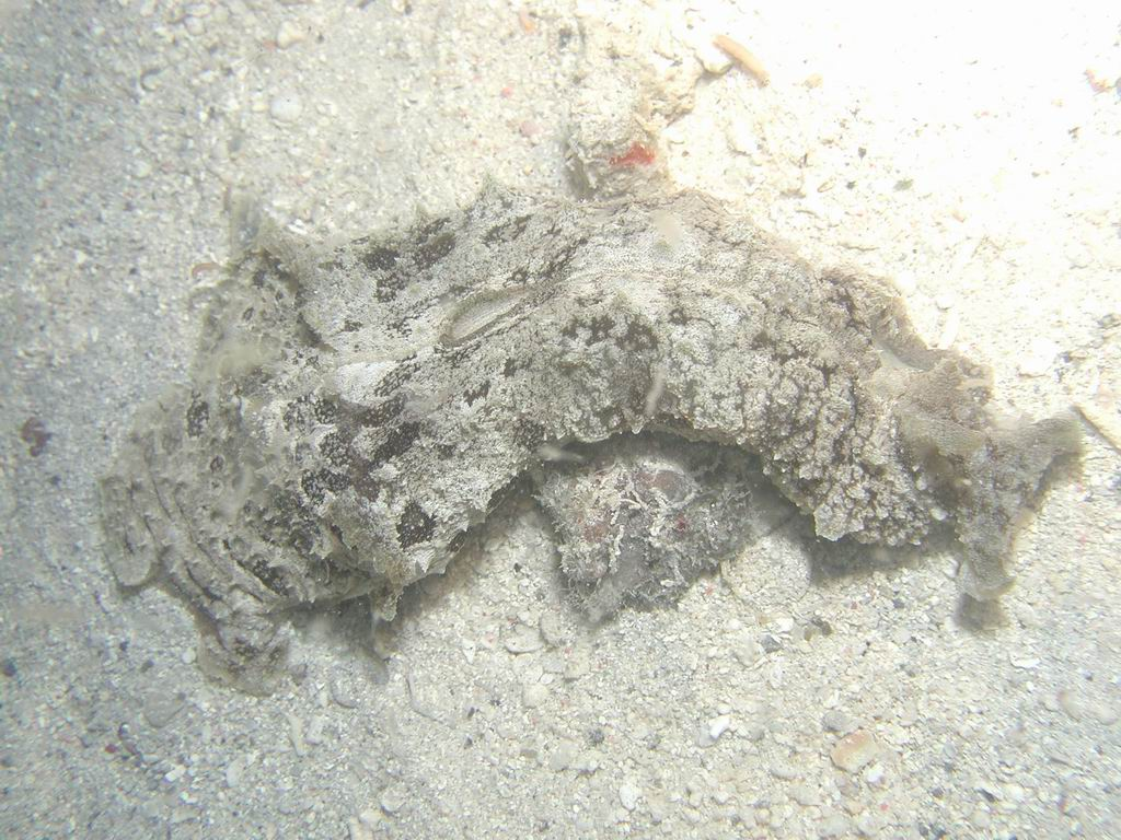 Dolabella Auricularia, photo taken on April 2003 at layang layang. See also :Image:DolabellaAuriculariaLayangB.jpg